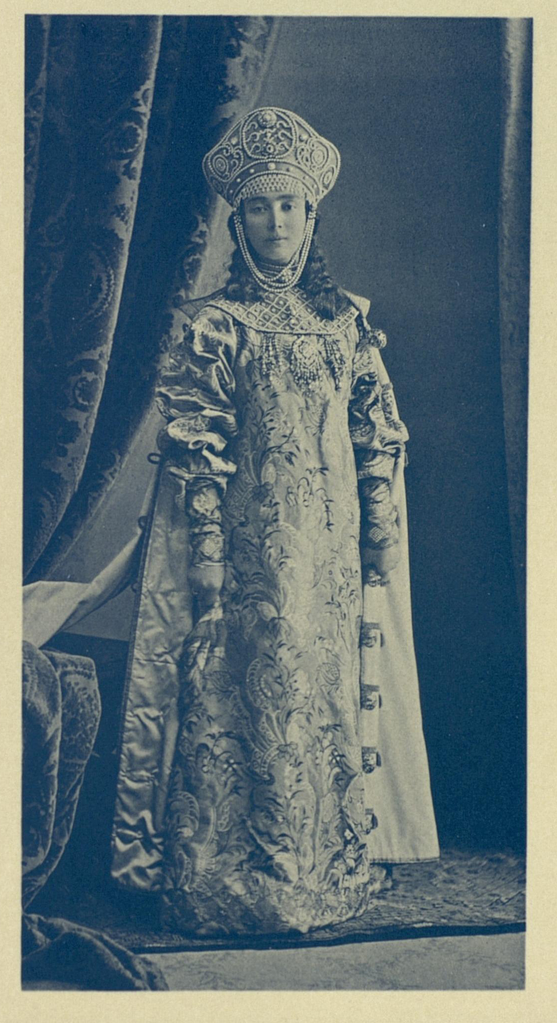 Princess Elizabeth Nikolaevna Obolenskaya, the Lesser, in 17th-century boyarishnya's attire